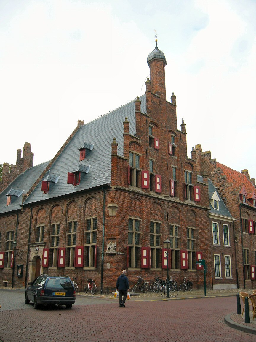 Doesburg Town Hall